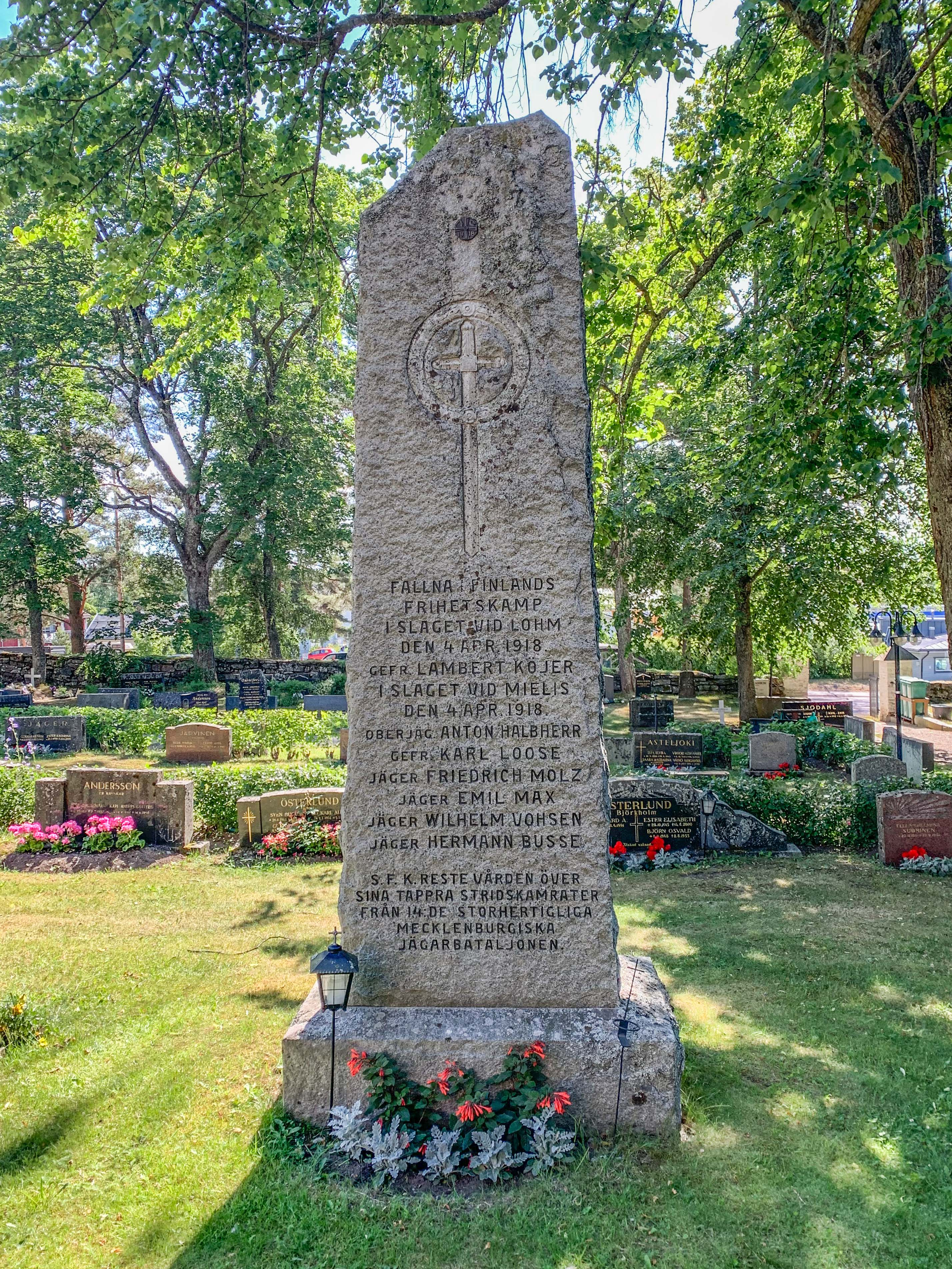 Monument over fallen Germans in Nagu 1918